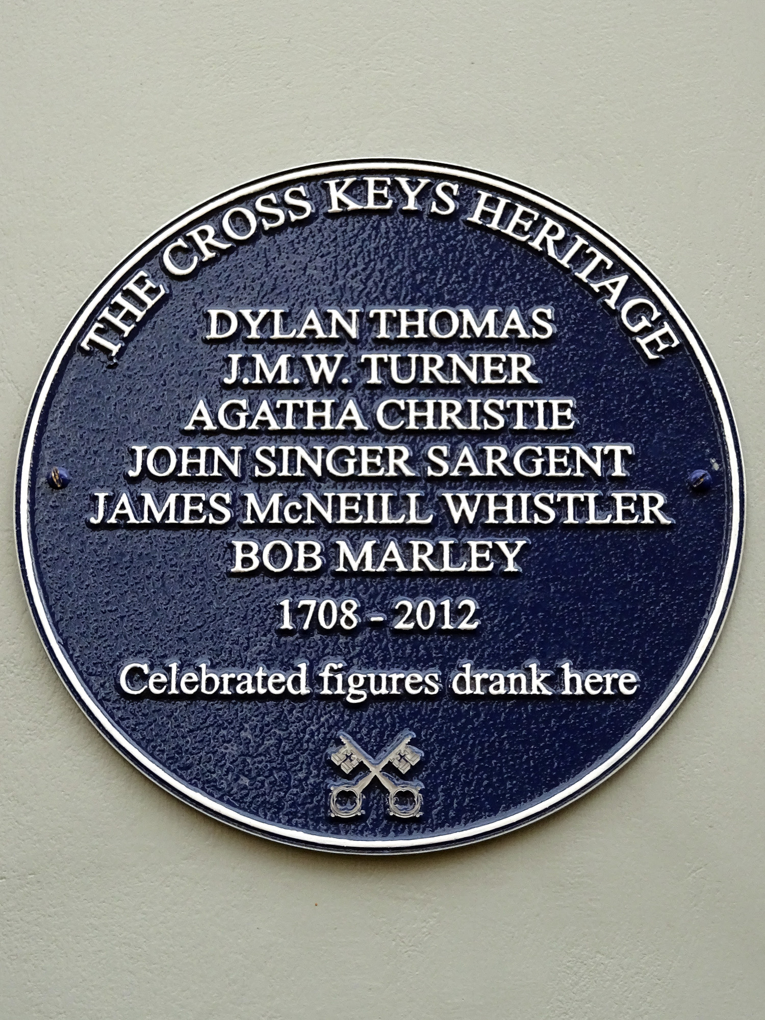 Blue plaque at The Cross Keys, 1 Lawrence Street, Chelsea London SW3 5NB